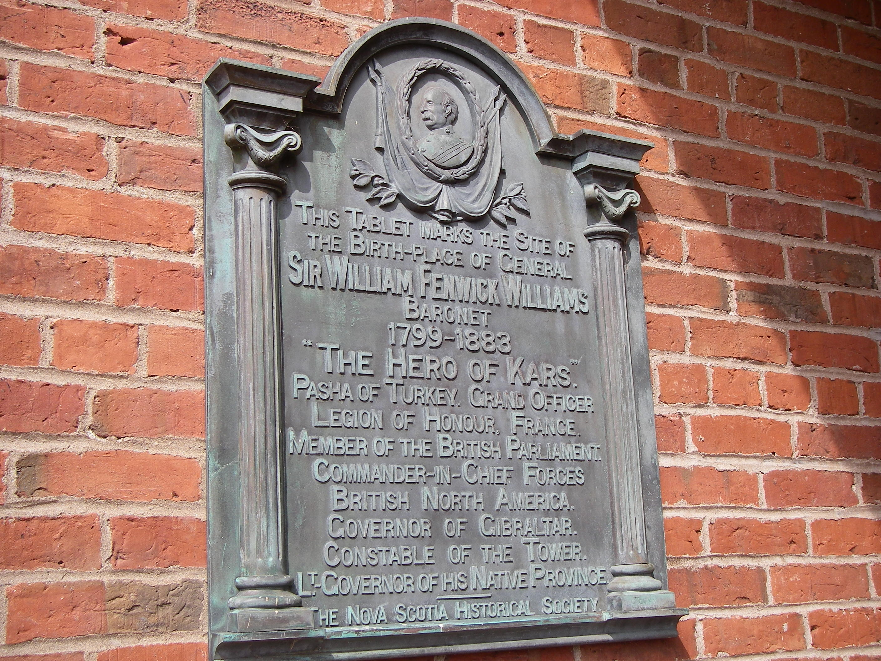 A plaque affixed to the facade of the Royal Bank building in Annapolis Royal, Nova Scotia. It was placed there by the Nova Scotia Historical Society, and marks his birth place.